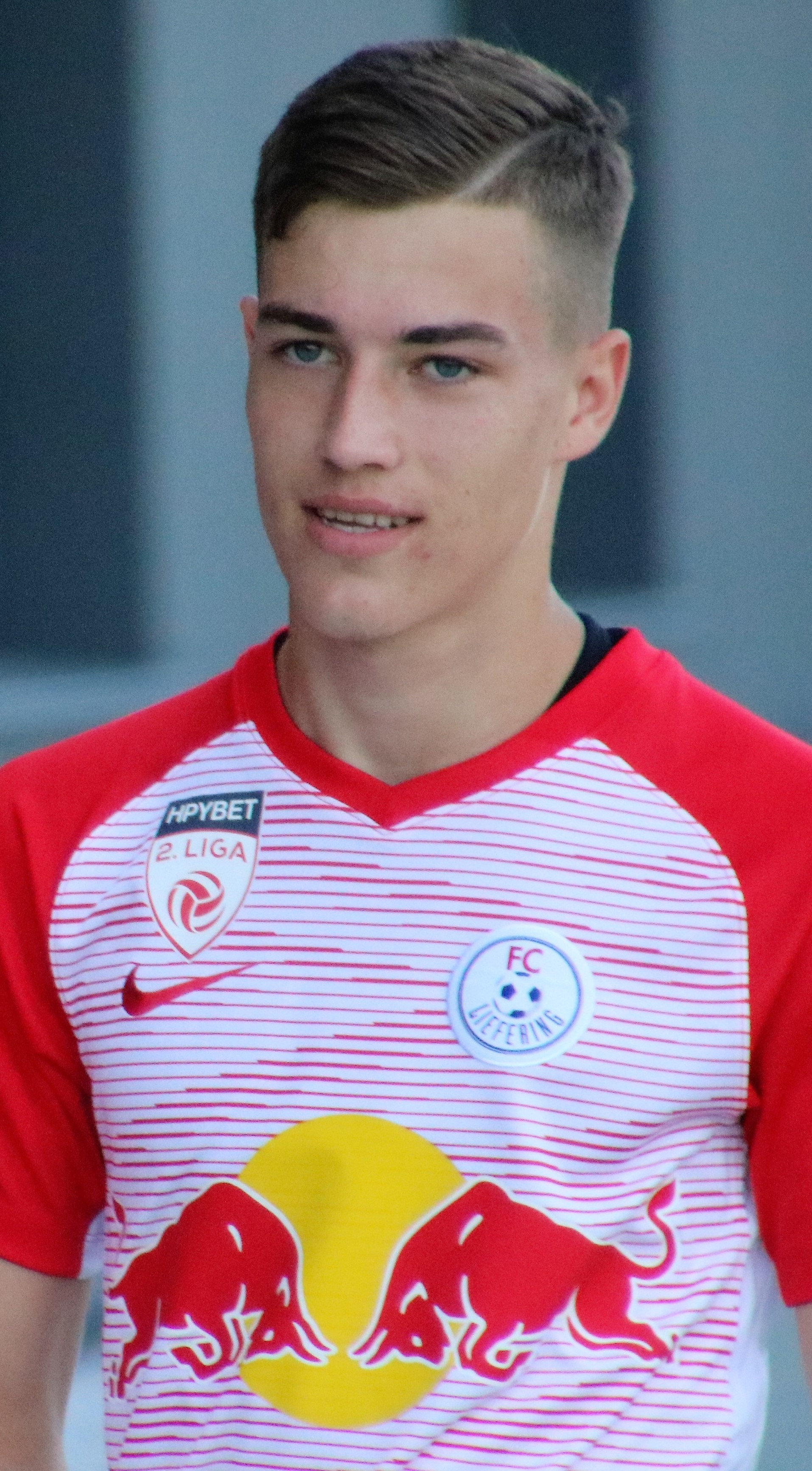 Cut out from FC Liefering gegen SV Grödig (Testspiel 16. Juli 2019) 13.jpg